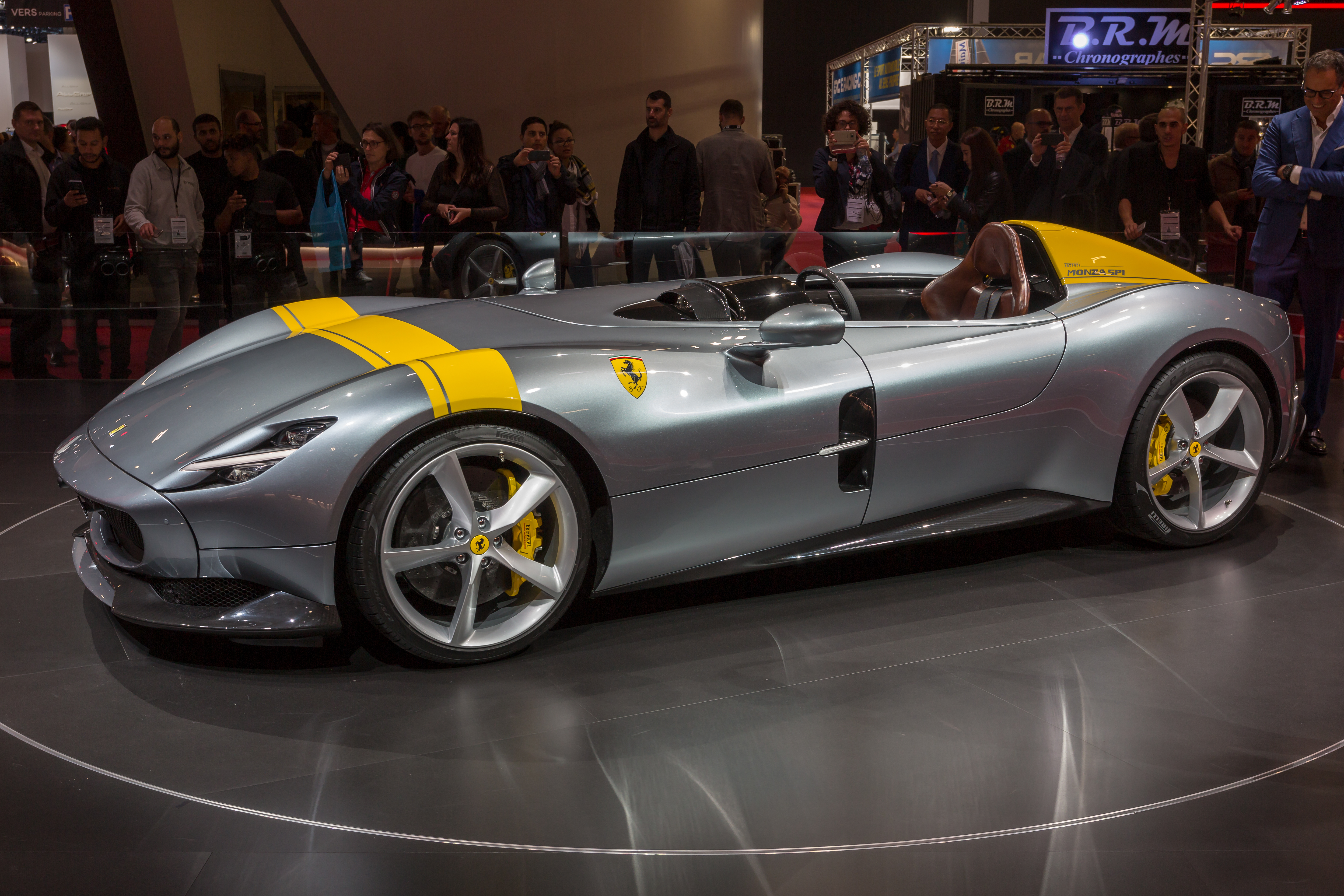 Ferrari Monza SP1 at Mondial Paris Motor Show 2018